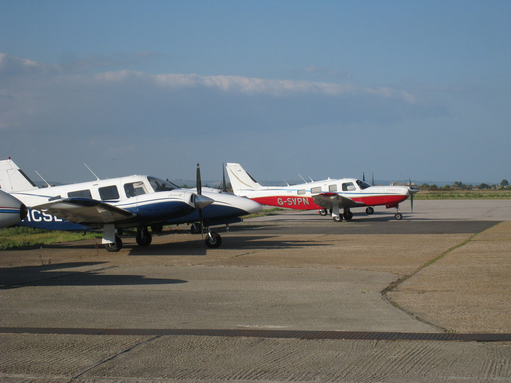 Planes at Lydd Airport